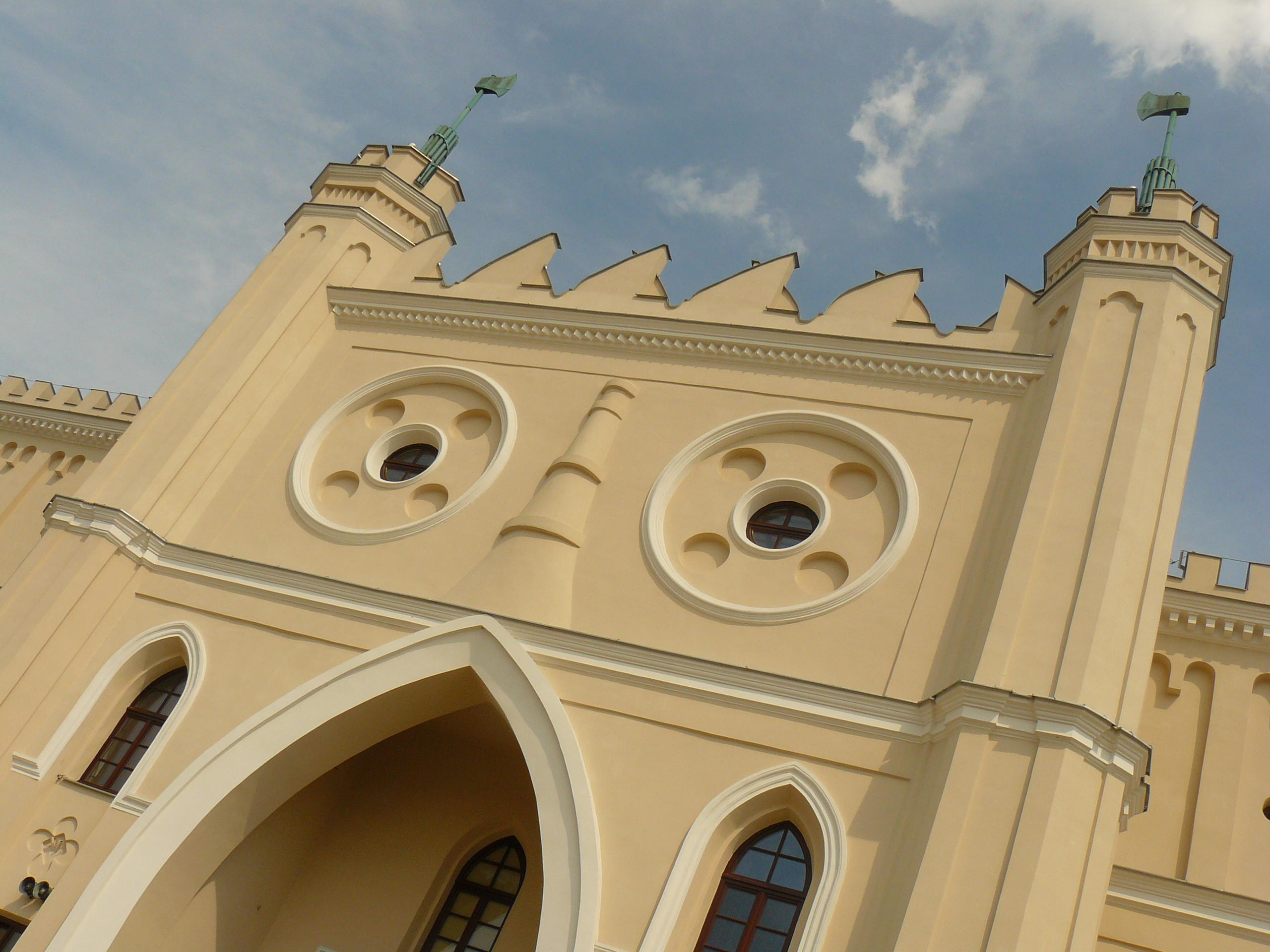 Lublin Castle